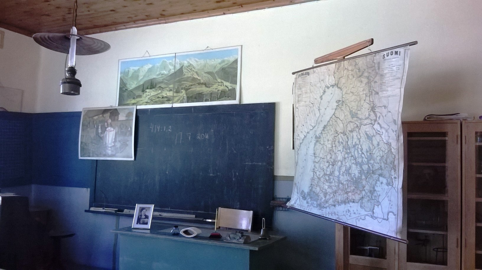 The old classroom at Saukkojärvi School Museum